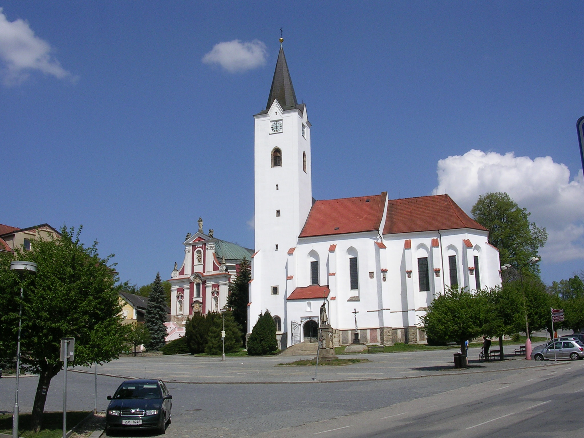 Pacov, Vysočina Region, the Czech Republic.